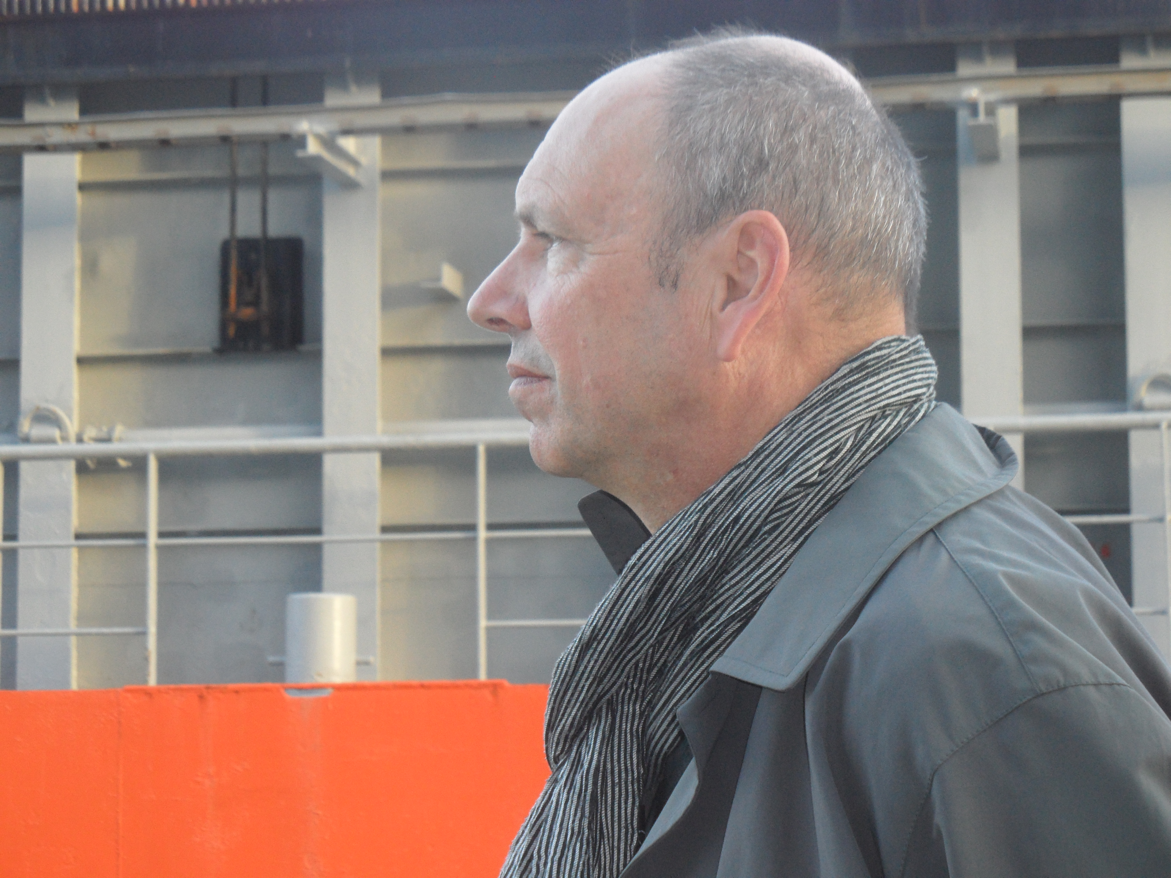 Holmer Becker